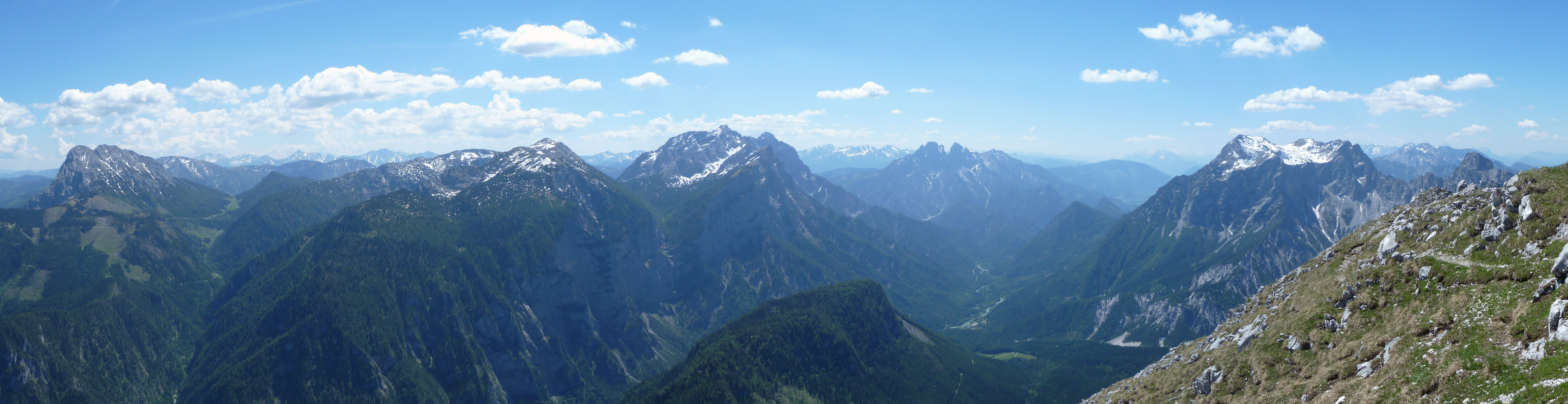 Panaroma of Mountains in National Park Gesäuse in Styria, Austria; View from Tamischbachturm This file shows the National Park Gesäuse in Austria.